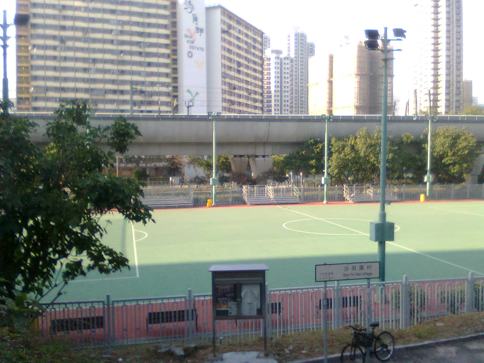 Sha Tin Wai Playground